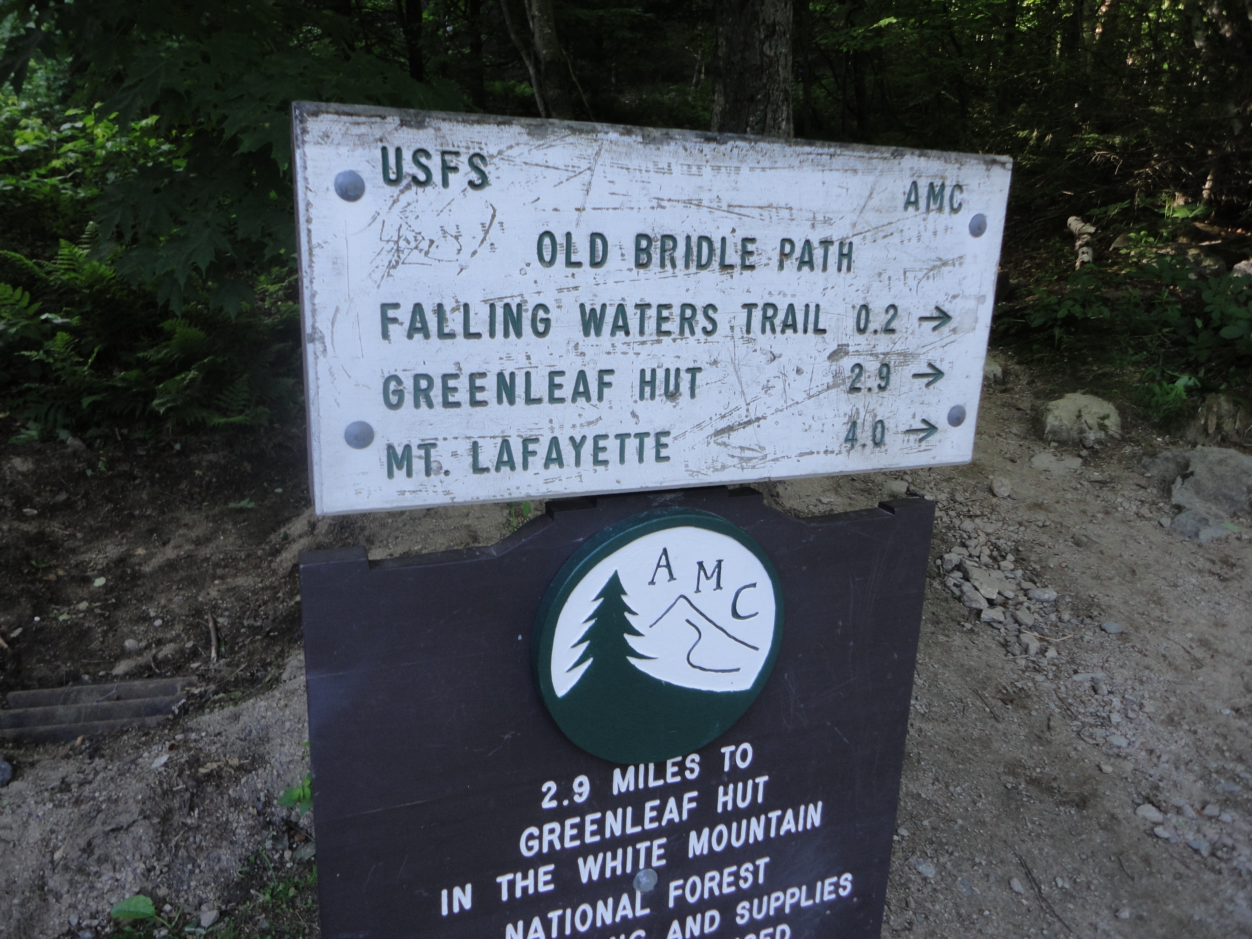 Sign for Old Bridle Path hiking trail in New Hampshire, U.S.